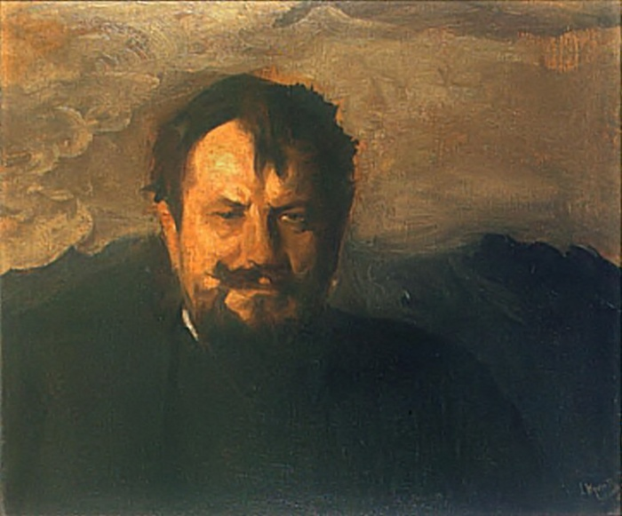 Portrait of Jan Kasprowicz by Leon Wyczółkowski, oil on canvas, 1898, 59 x 68 cm.